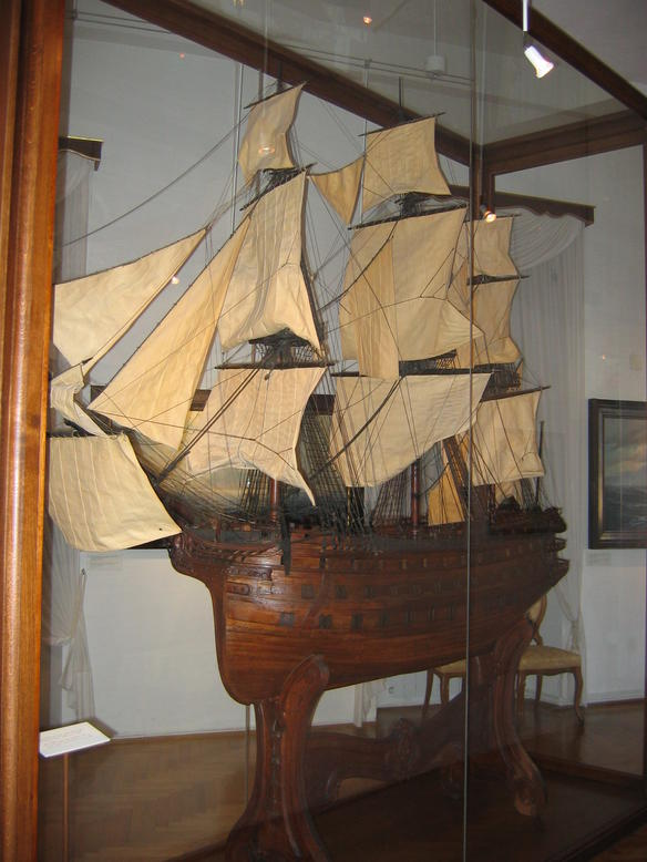 The model of the battleship Kaiser Karl der Sechste (1770–1785). Produced in the workshop of Gabriel Gruber. The model is kept in the Maritime Museum of Piran in Slovenia; it is property of the National Museum of Slovenia.[1] (pg. 55), [2]